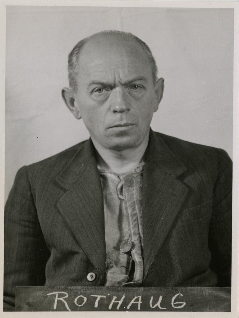 Oswald Rothaug (1877-1951) was Senior Public Prosecutor of the People's Court during the Second World War. This photograph of Rothaug (probably as a defendant during the Nurmeberg Trials No. III - the Justice Case) was taken by US Army photographers on behalf of the Office of the U.S. Chief of Counsel for the Prosecution of Axis Criminality (OUSCCPAC, May 1945 - Oct. 1946) or its successor organization, the Office of Chief of Counsel for War Crimes (OCCWC, Oct. 1946 - June 1949).